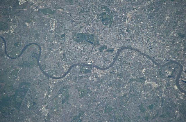 Astronaut Photo of London, United Kingdom taken from the International Space Station (ISS) during Expedition 23 on May 22, 2010.